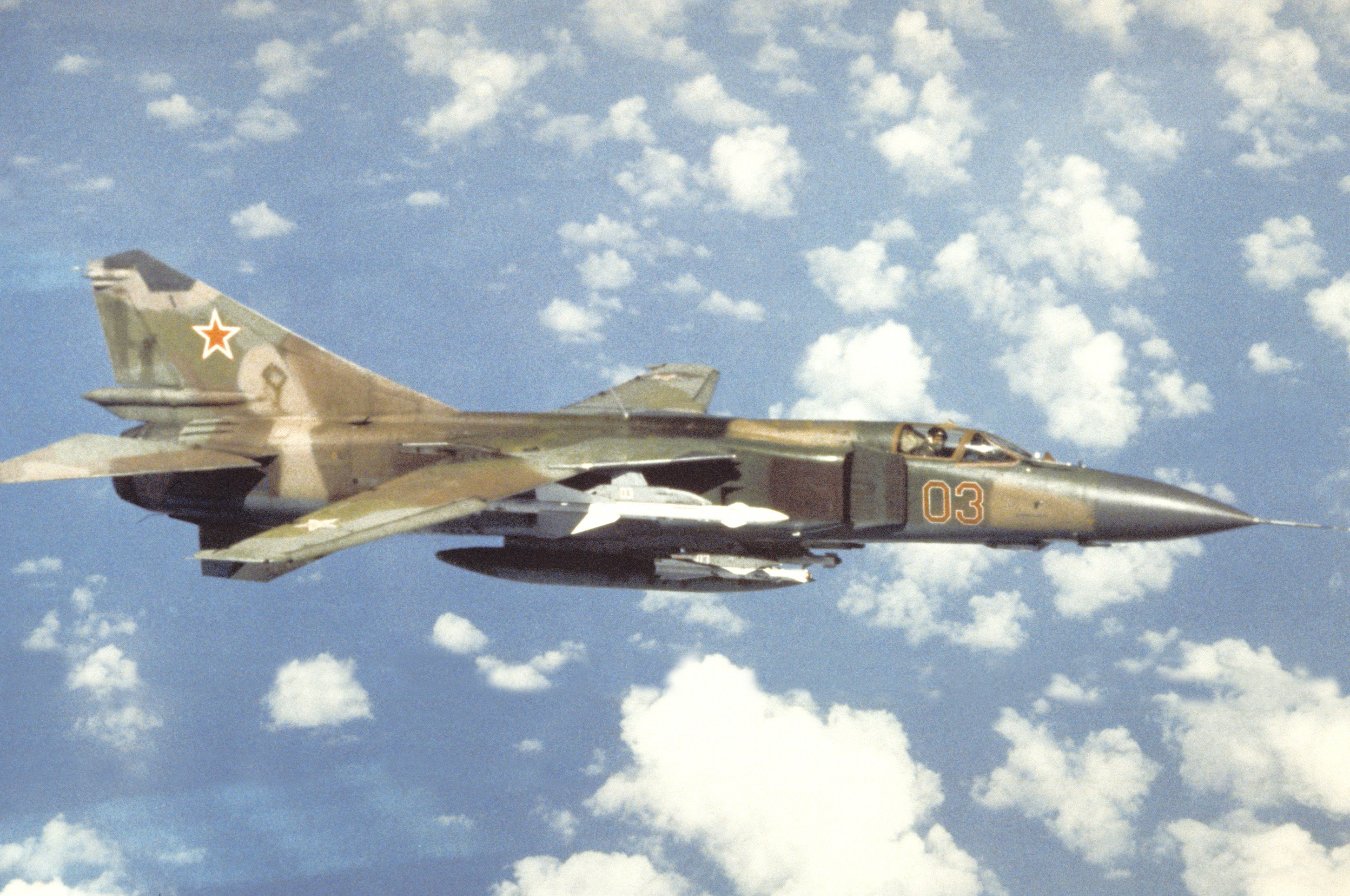 An air-to-air right side view of a Soviet MiG-23 Flogger aircraft. Exact Date Shot Unknown (Released to Public)